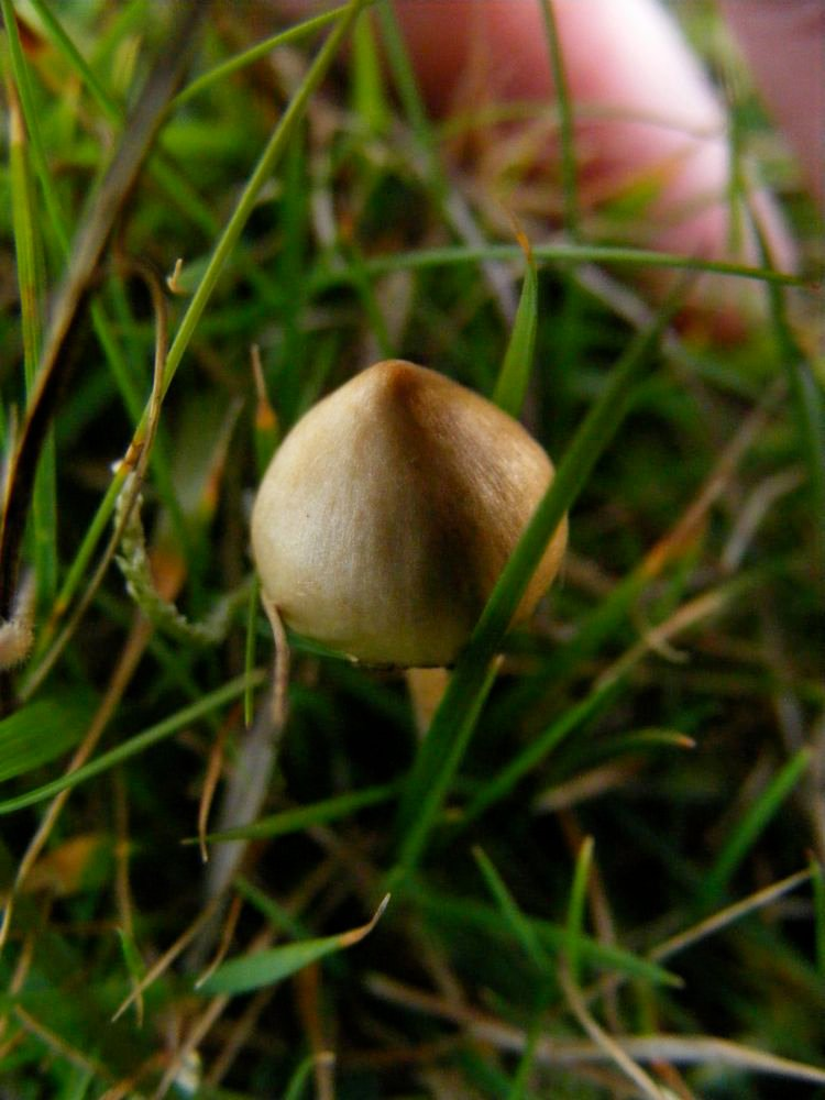 A mature Liberty Cap found in County Mayo, Ireland.